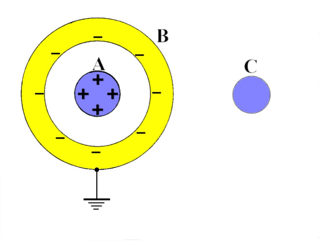 A diagram of electrostatic shielding.